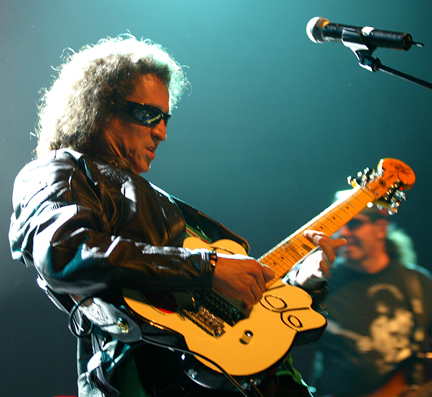 Alex Lora, lead singer for El TRI, a legendary Mexican rock band. Photo by Rafael Amado.